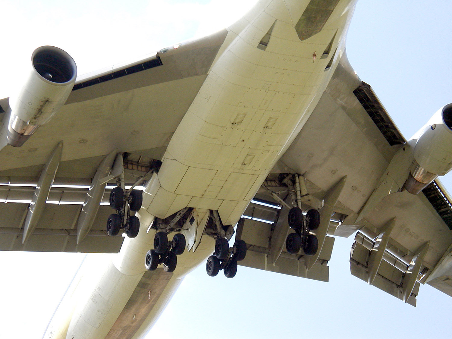 Wing and fuselage undercarriages on a Singapore Airlines Boeing 747-400 landing at London Heathrow Airport, England. The last three letters of the registration (9V-SMT) can just be seen on the fuselage in the lower left.